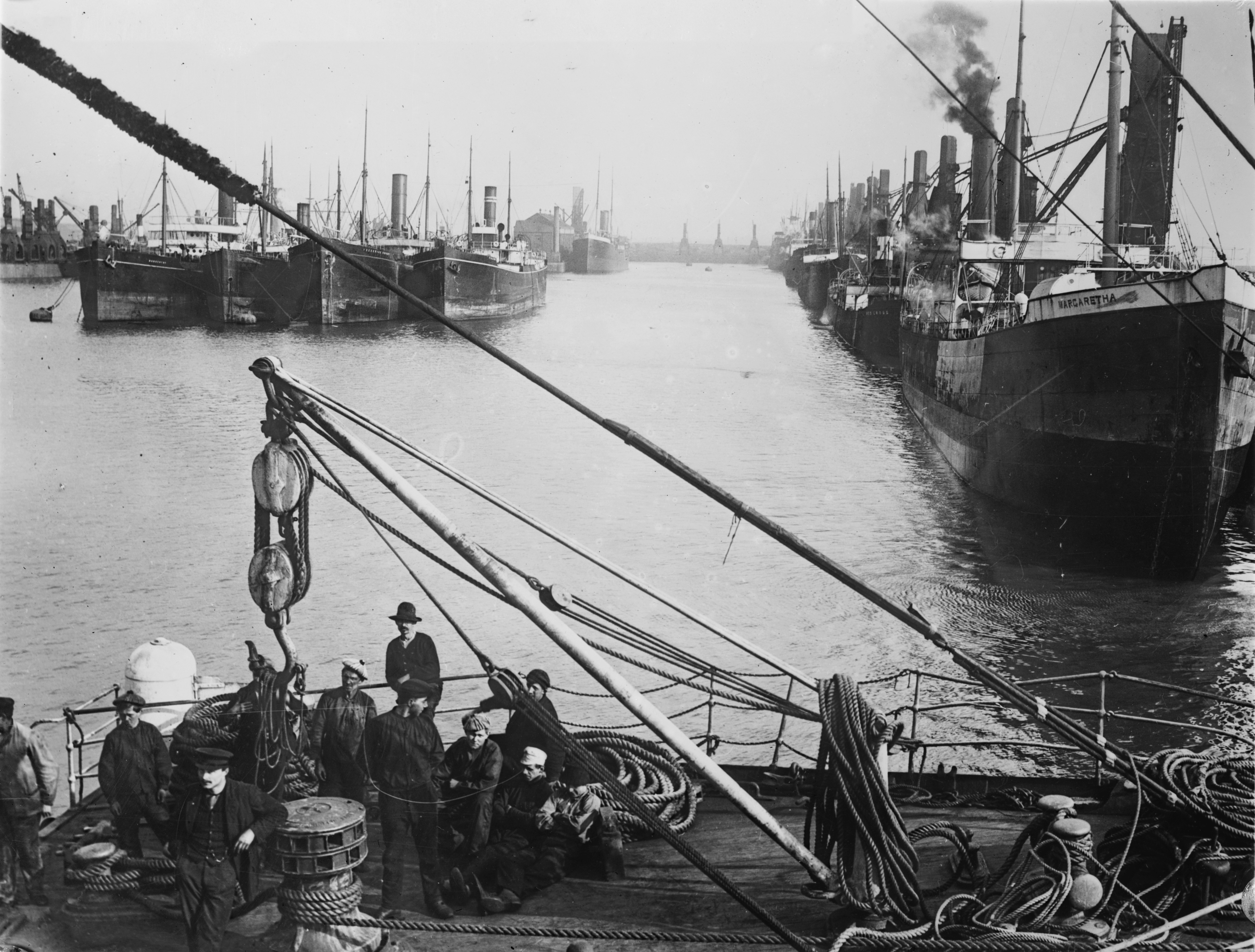 General Strike (UK), Cardiff Docks, Cardiff, Wales